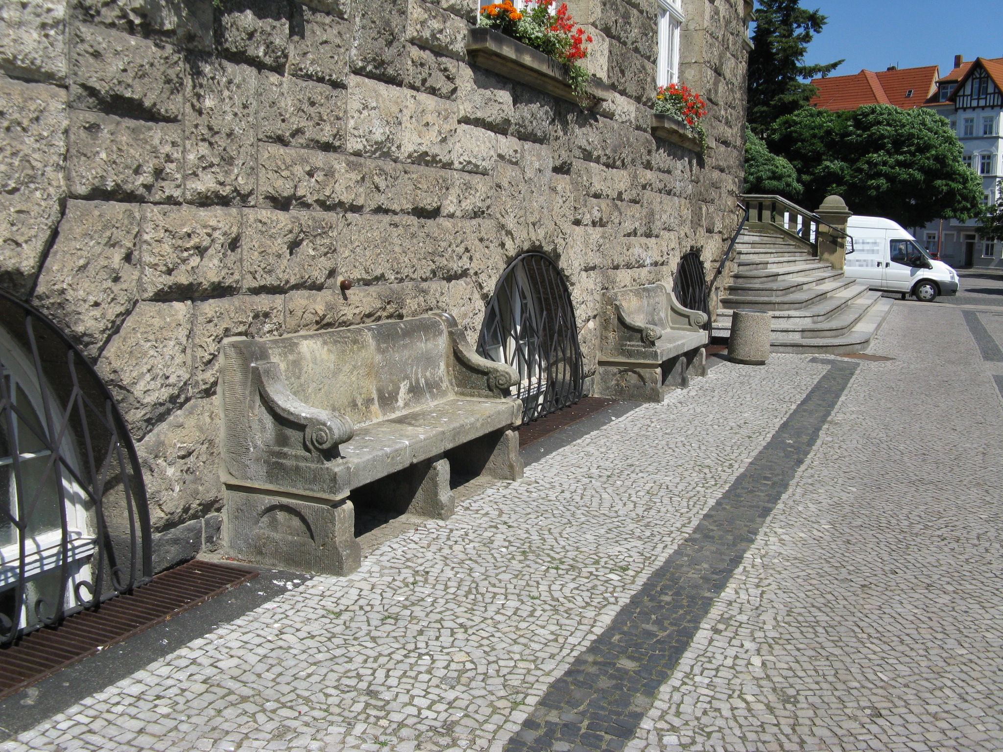 Town hall in Wittenberge in Wittenberge, disctrict Prignitz, Brandenburg, Germany